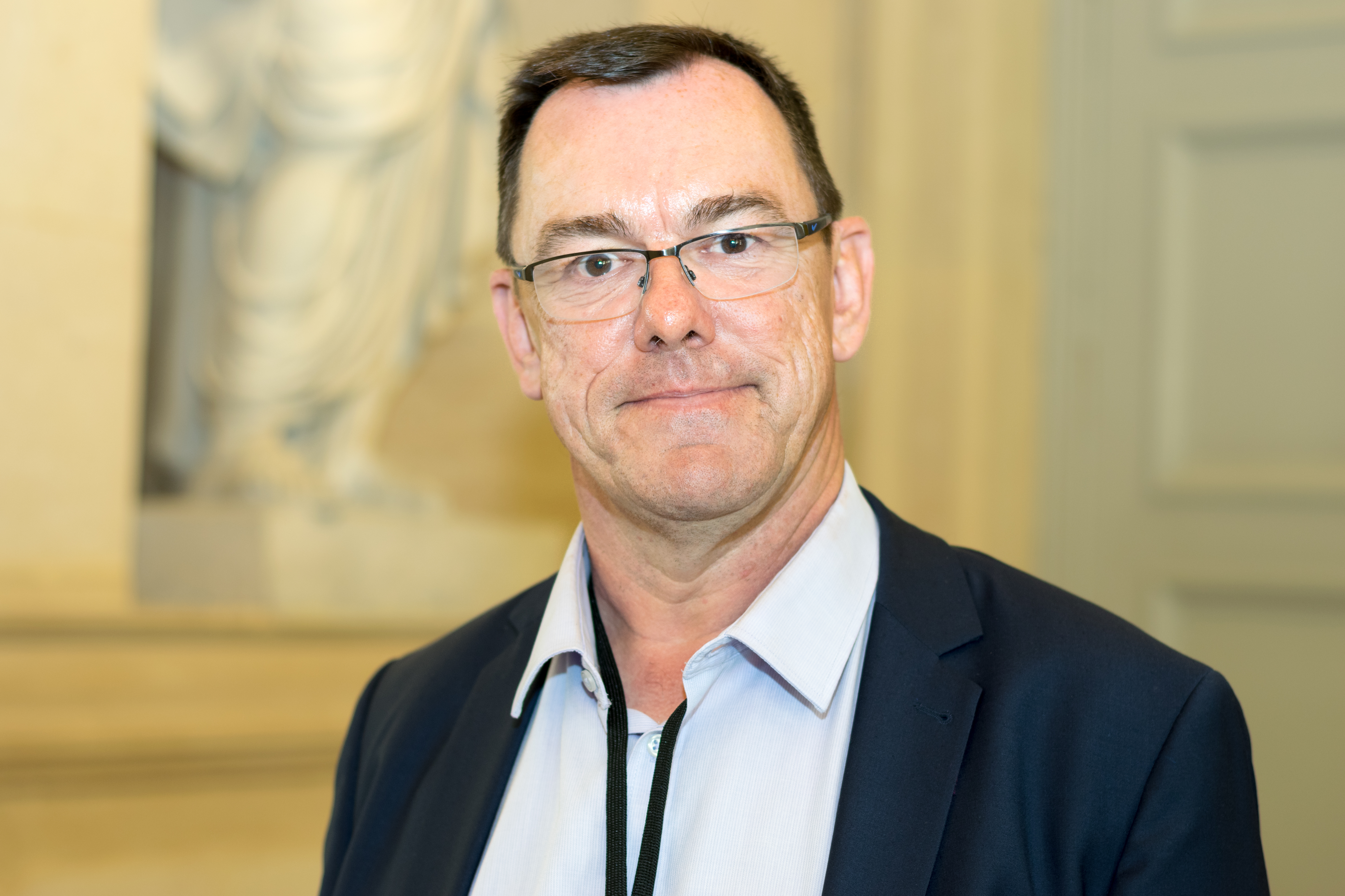 François André in the salle des Quatres Colonnes of the Palais Bourbon (Paris, France).